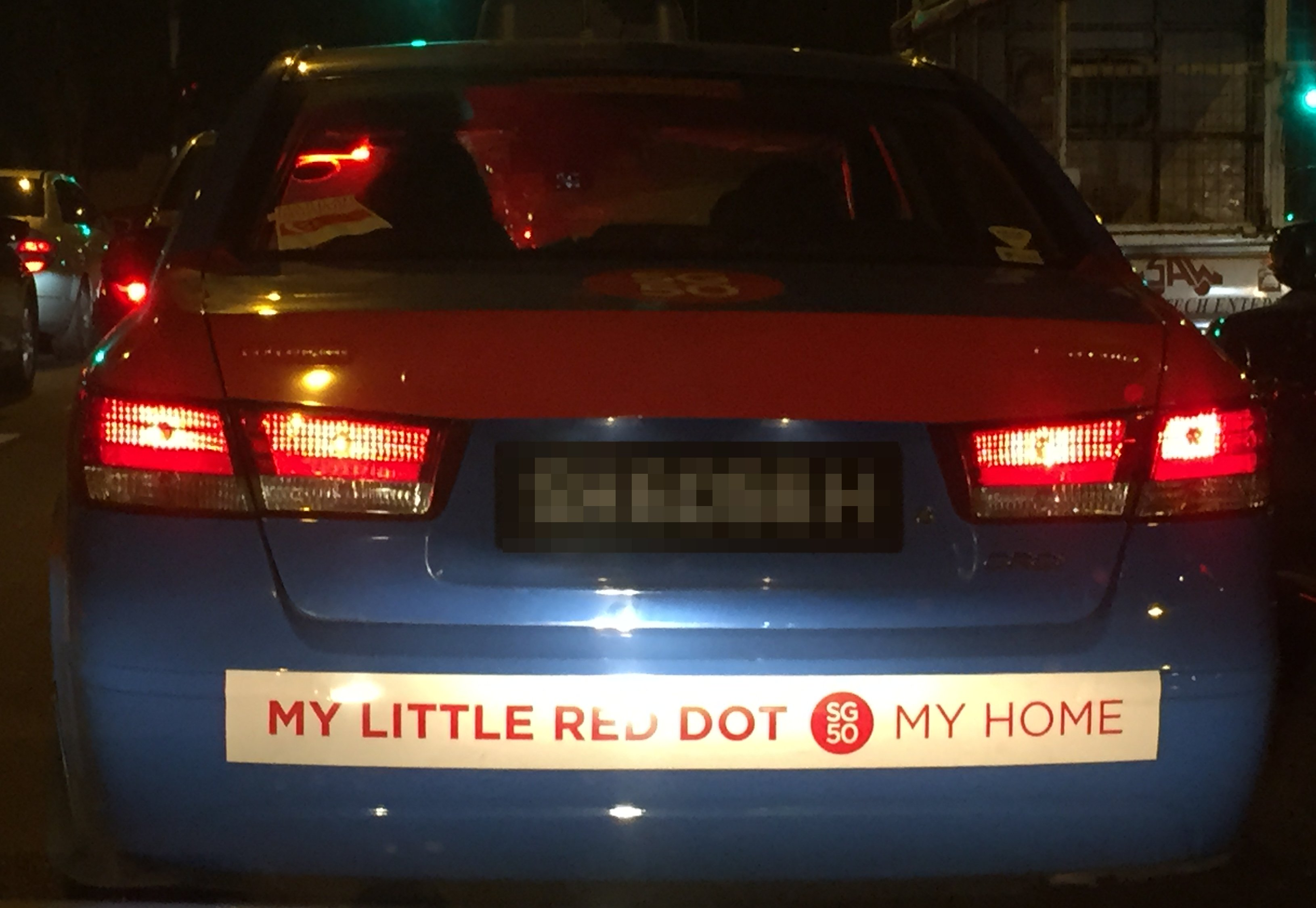 An SG50 bumper sticker with the slogans "MY LITTLE RED DOT" and "MY HOME", commemorating the 50th anniversary of the independence of Singapore, on a Comfort taxi.